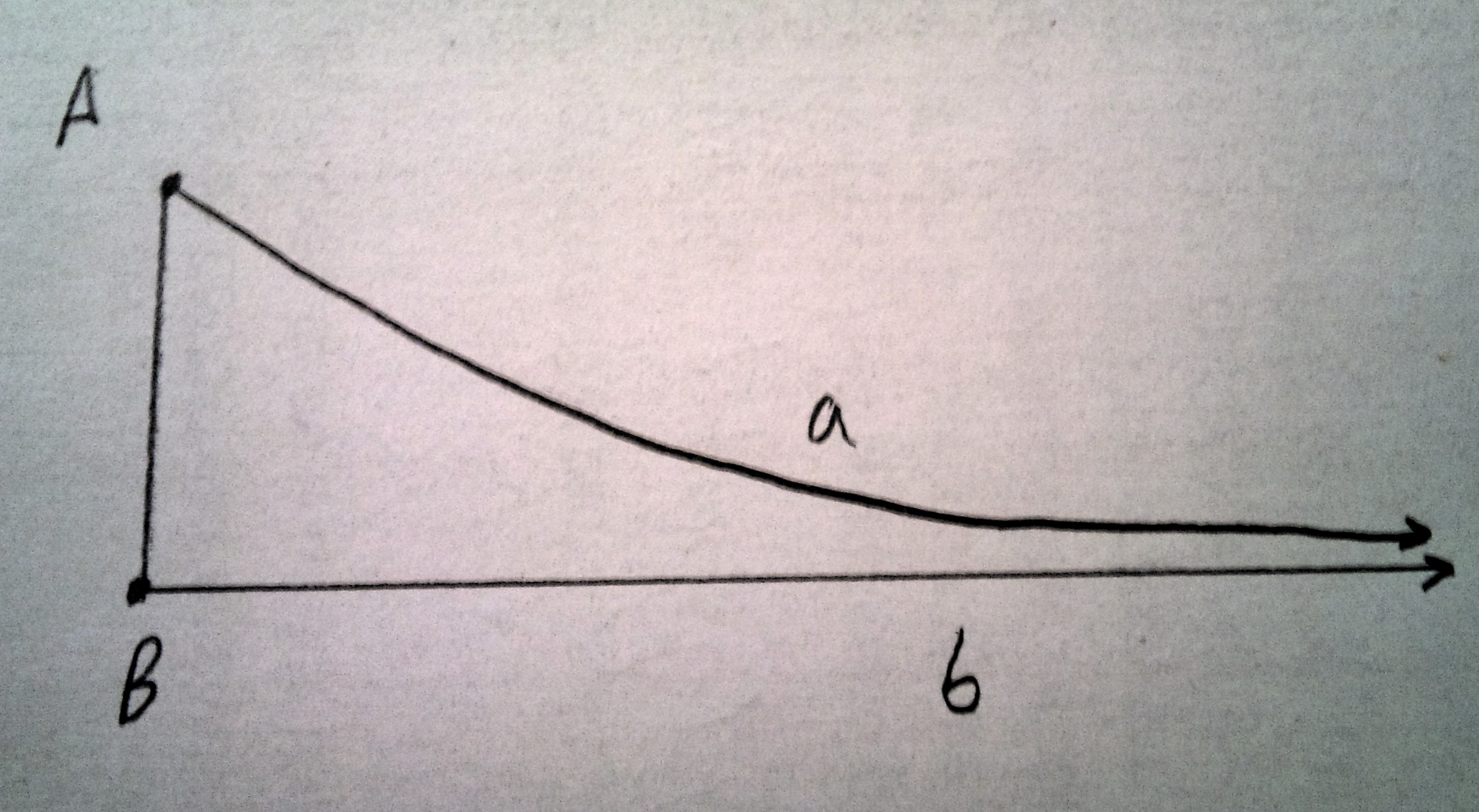 Drawn by hand geometric picture of Limiting Parallels.